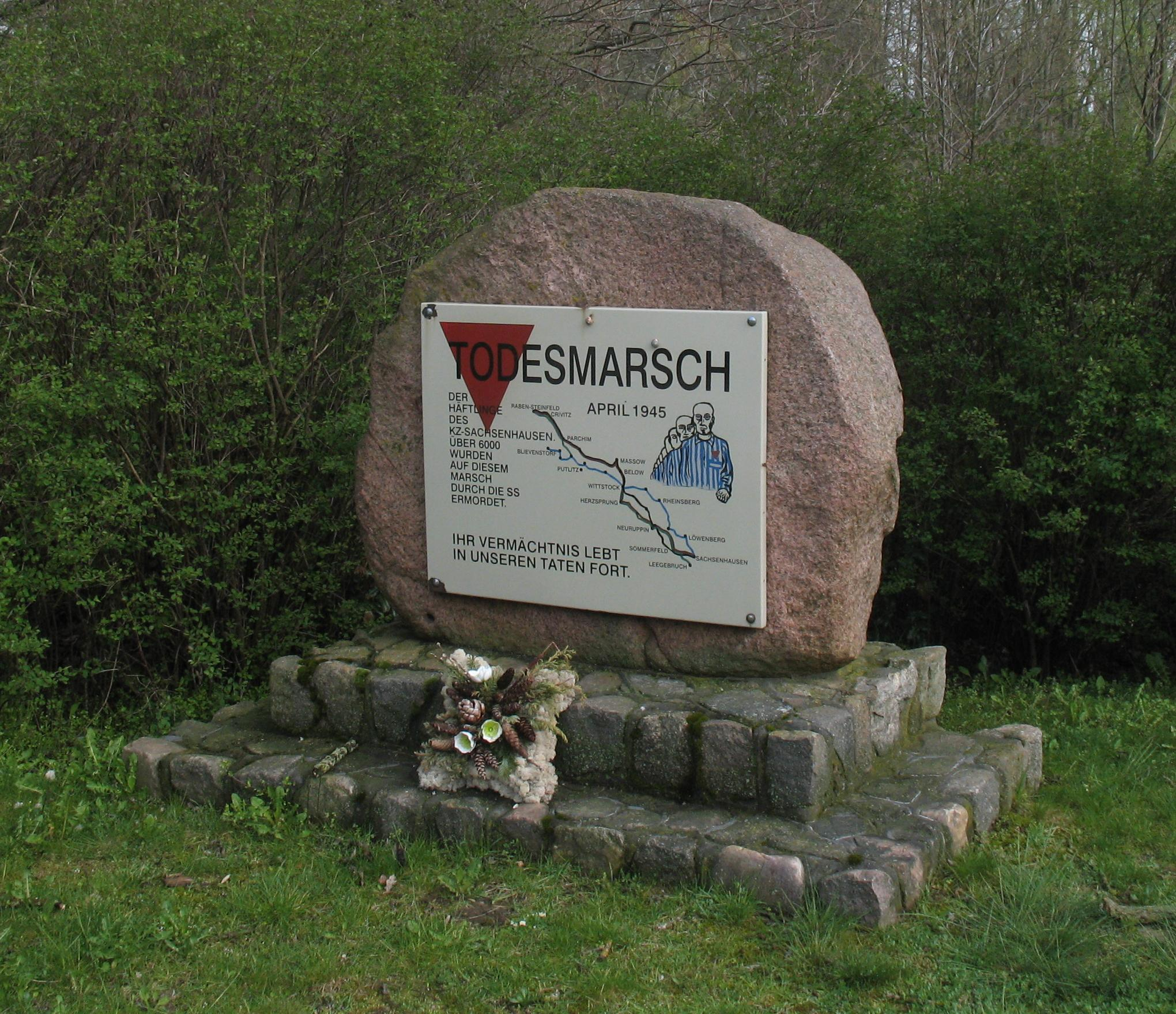 Memorial plaque to the victims of the death march in Putlitz in Brandenburg, Germany.